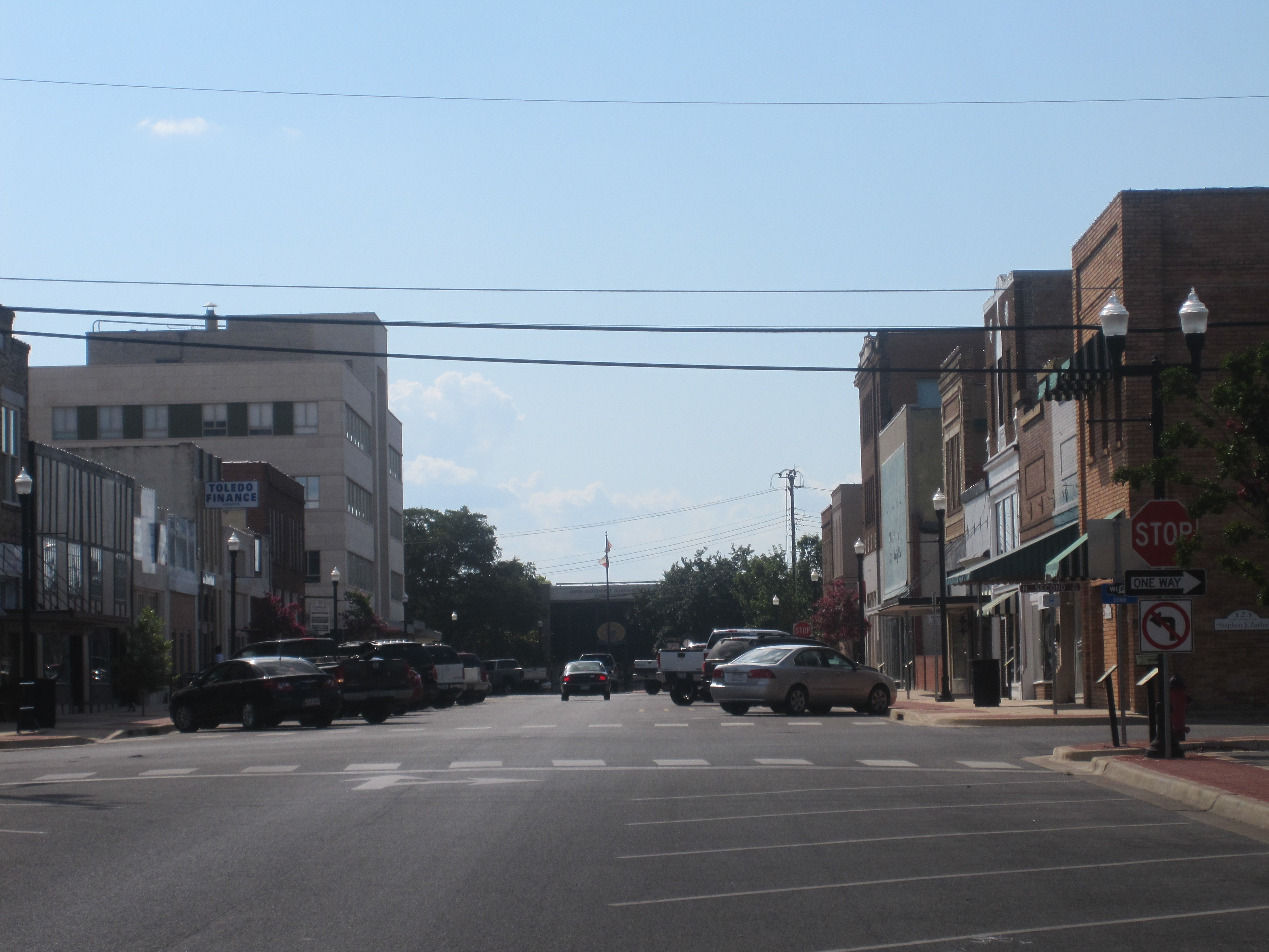 View of downtown Lufkin, Texas.